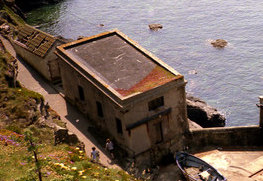 The second lifeboat station built in 1885 at Polpeor Cove, The Lizard, Cornwall. Cut/cropped and resized from an original posted on